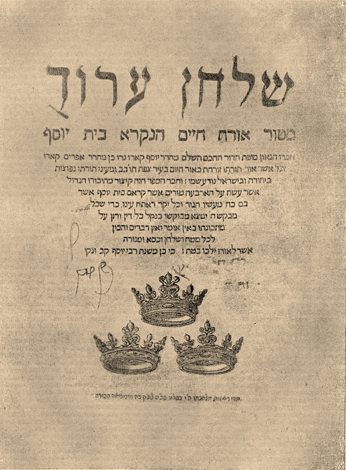 Illustration from Brockhaus and Efron Jewish Encyclopedia (1906—1913)